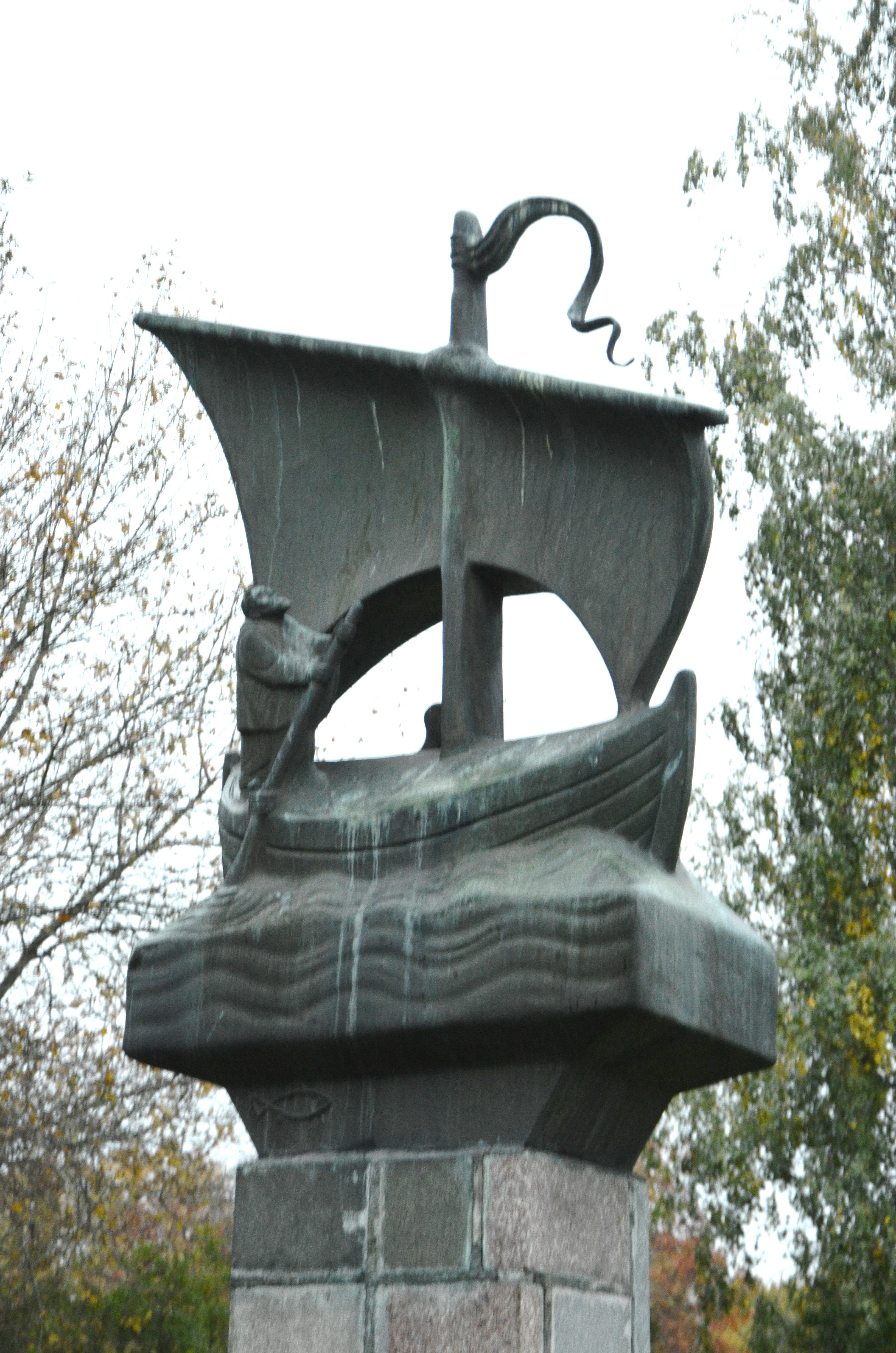 Livsbåten av Torolf Engström på Danderyds kyrkogård